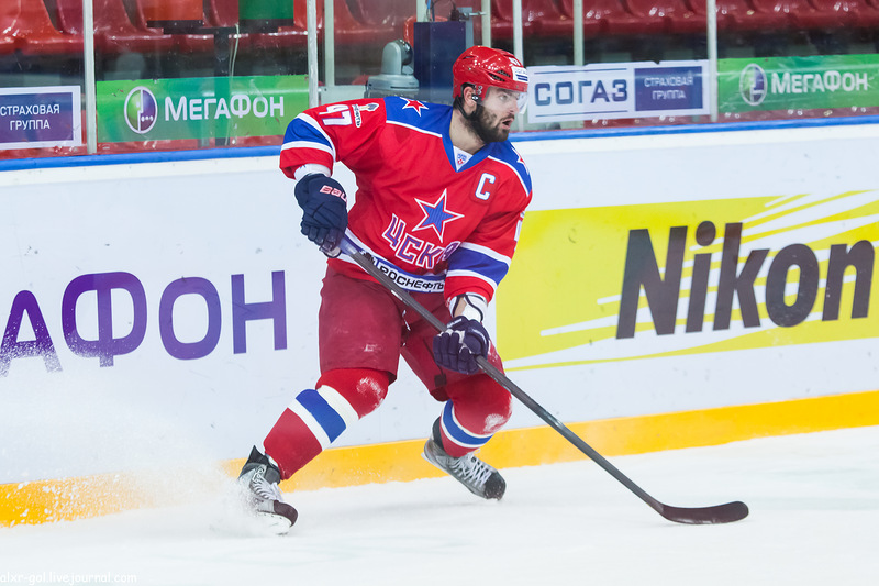 CSKA Moscow forward Alexander Radulov (in red) during KHL game on November 2, 2012.